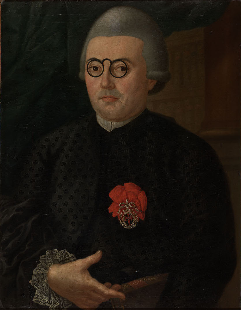 The first director of the library, 1796-1816.